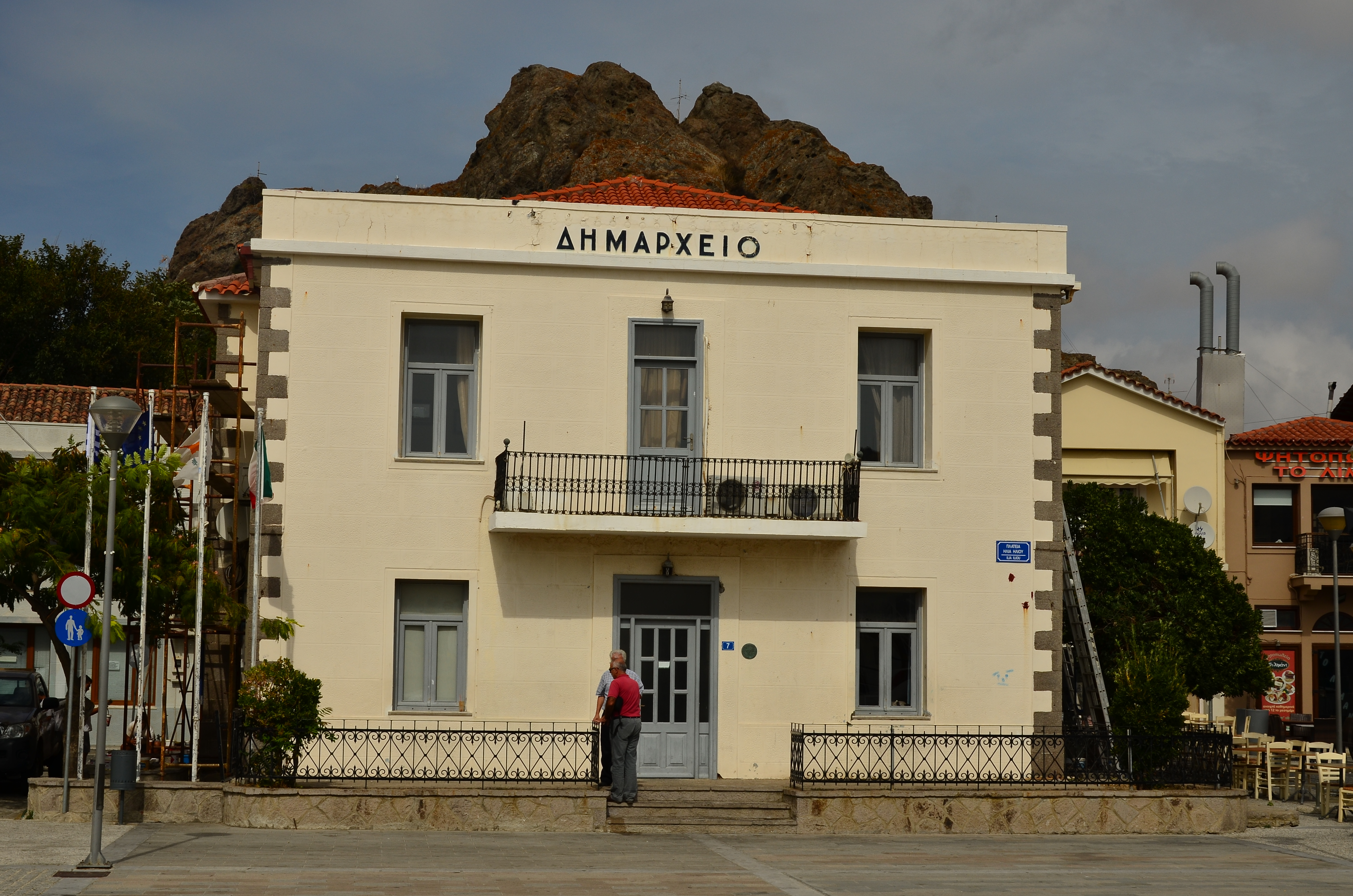 Town hall of Myrina. Lemnos, Greece